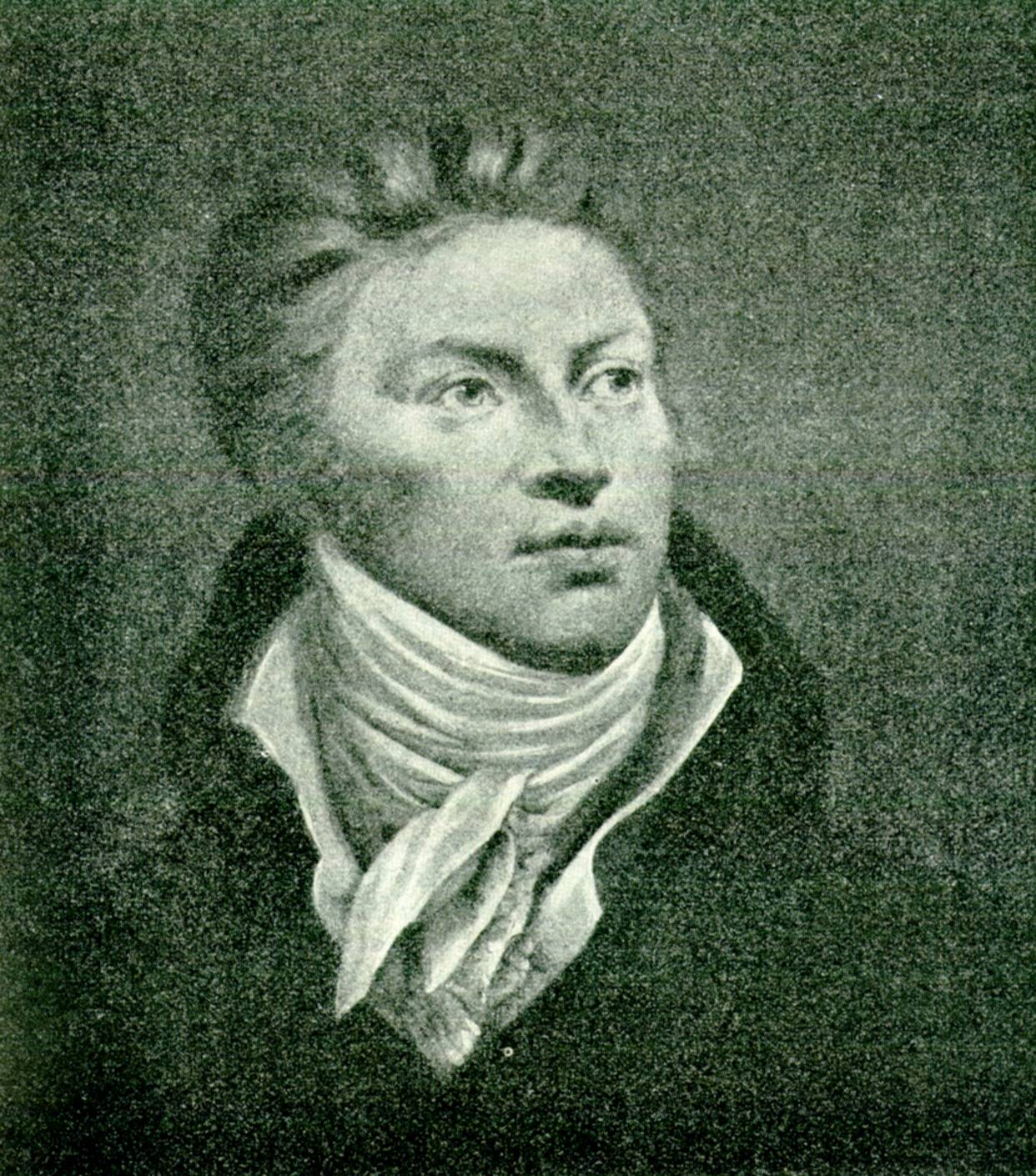 Friedrich Gilly (1772-1800)